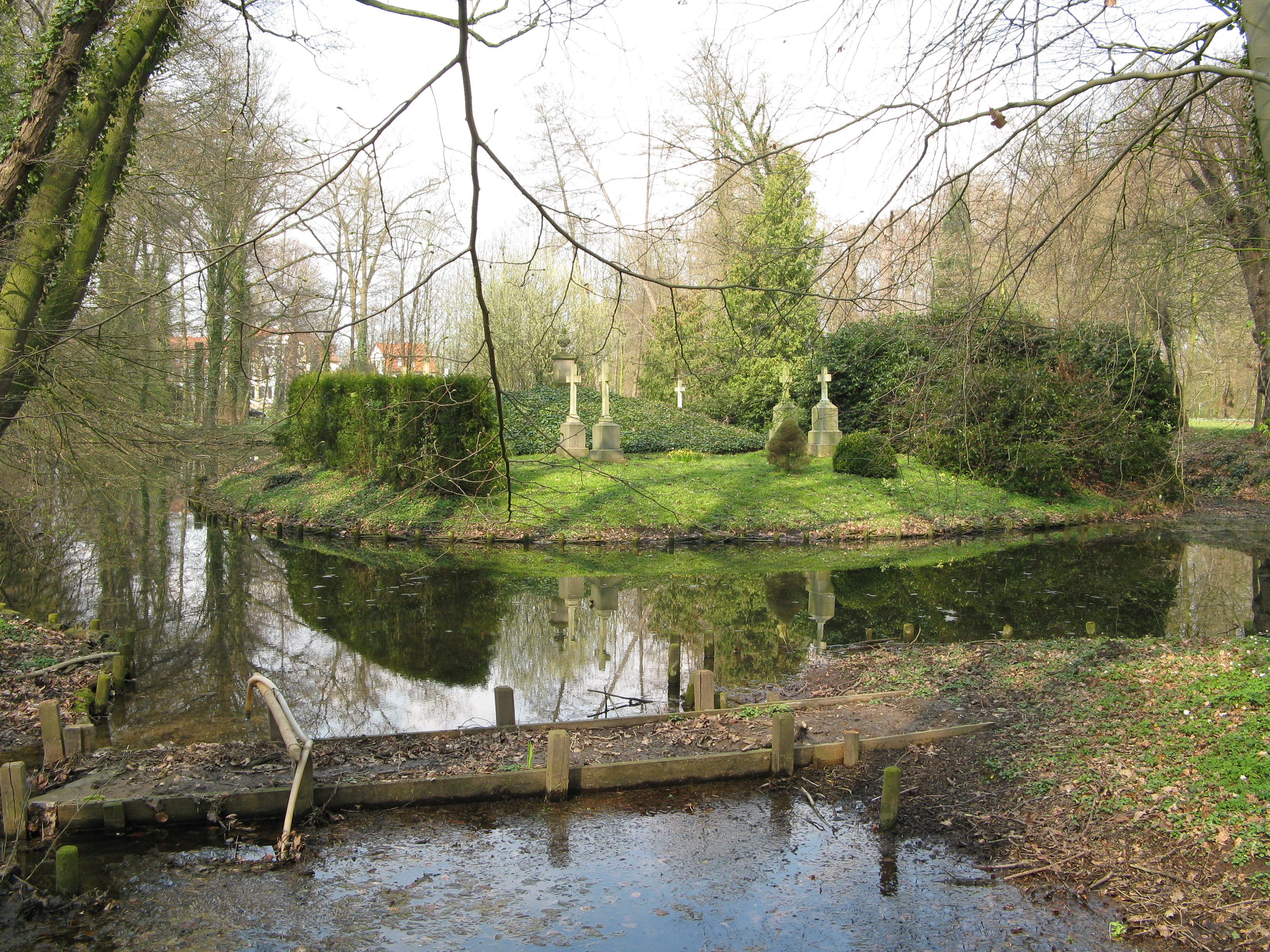 This is a photograph of an architectural monument.It is on the list of cultural monuments of Preußisch Oldendorf